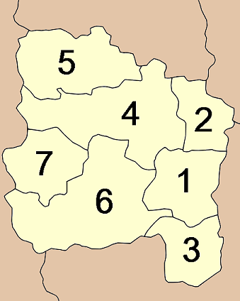 Map of the province Ang Thong with the districts (Amphoe) numbered. Mueang Ang Thong (เมืองอ่างทอง) Chaiyo (ไชโย) Pa Mok (ป่าโมก) Pho Thong (โพธิ์ทอง) Sawaeng Ha (แสวงหา) Wiset Chai Chan (วิเศษชัยชาญ) Samko (สามโก้)